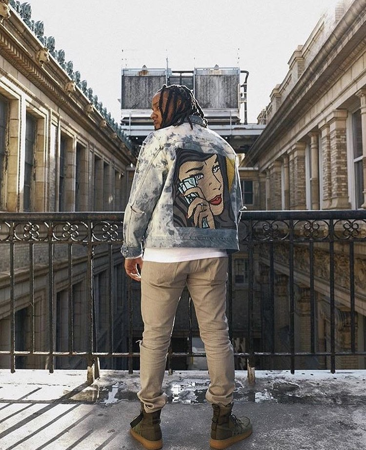 Cardiak pictured in Philadelphia PA.